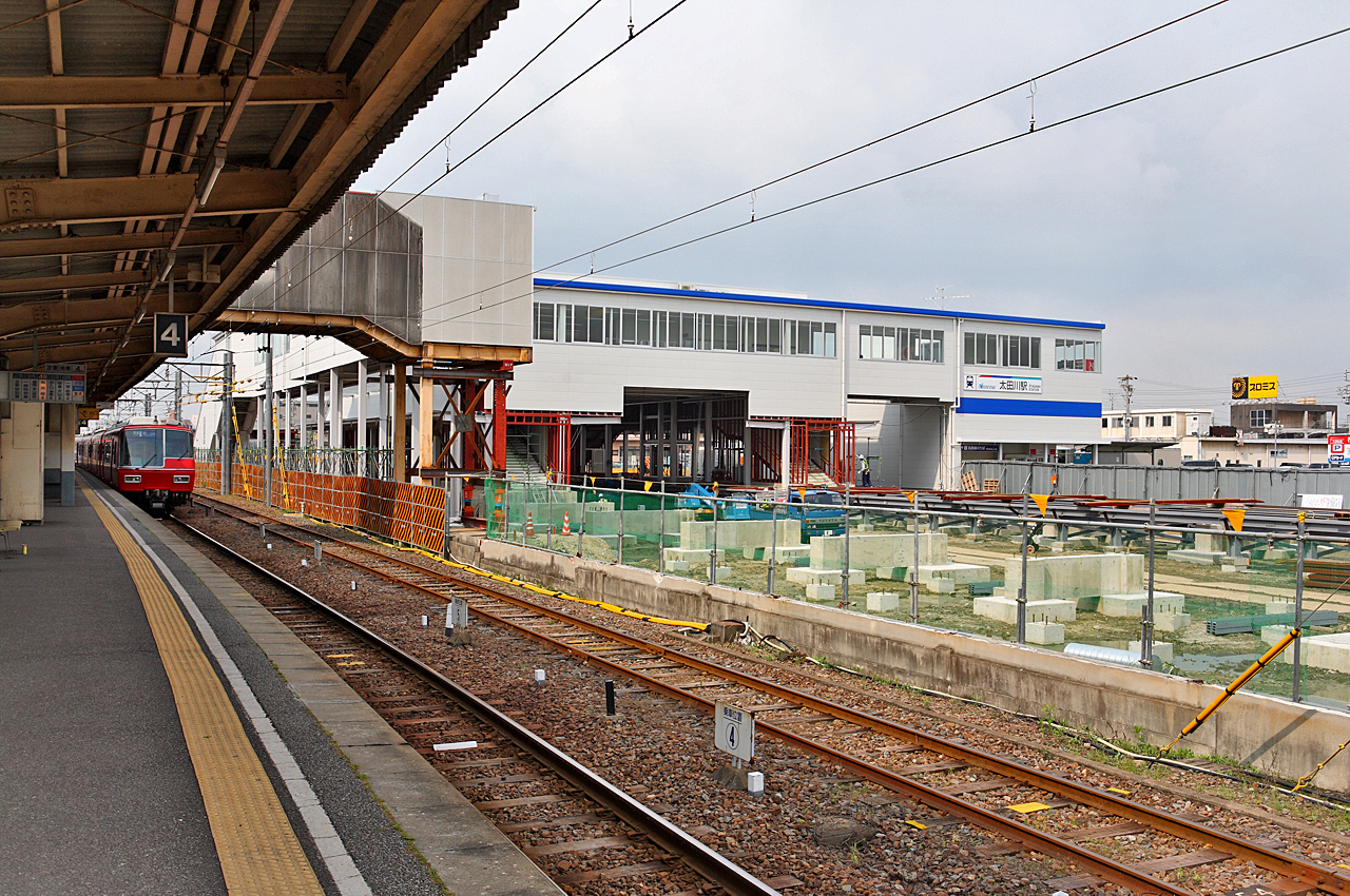 Meitetsu Ōtagawa Station ( under construction for renewal )